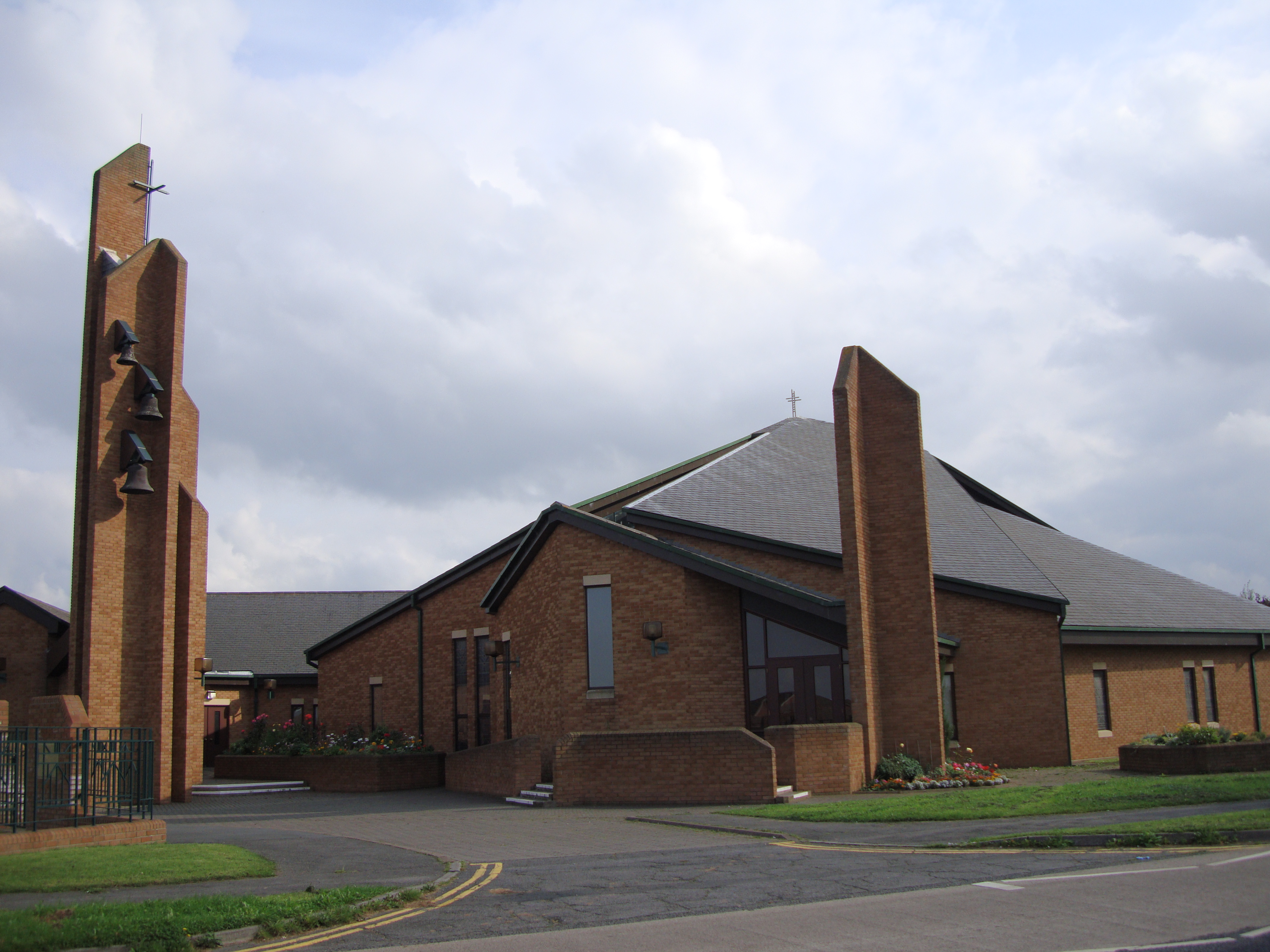 Photograph of the Roman Catholic Cathedral, Coulby Newham, Middlesbrough, England